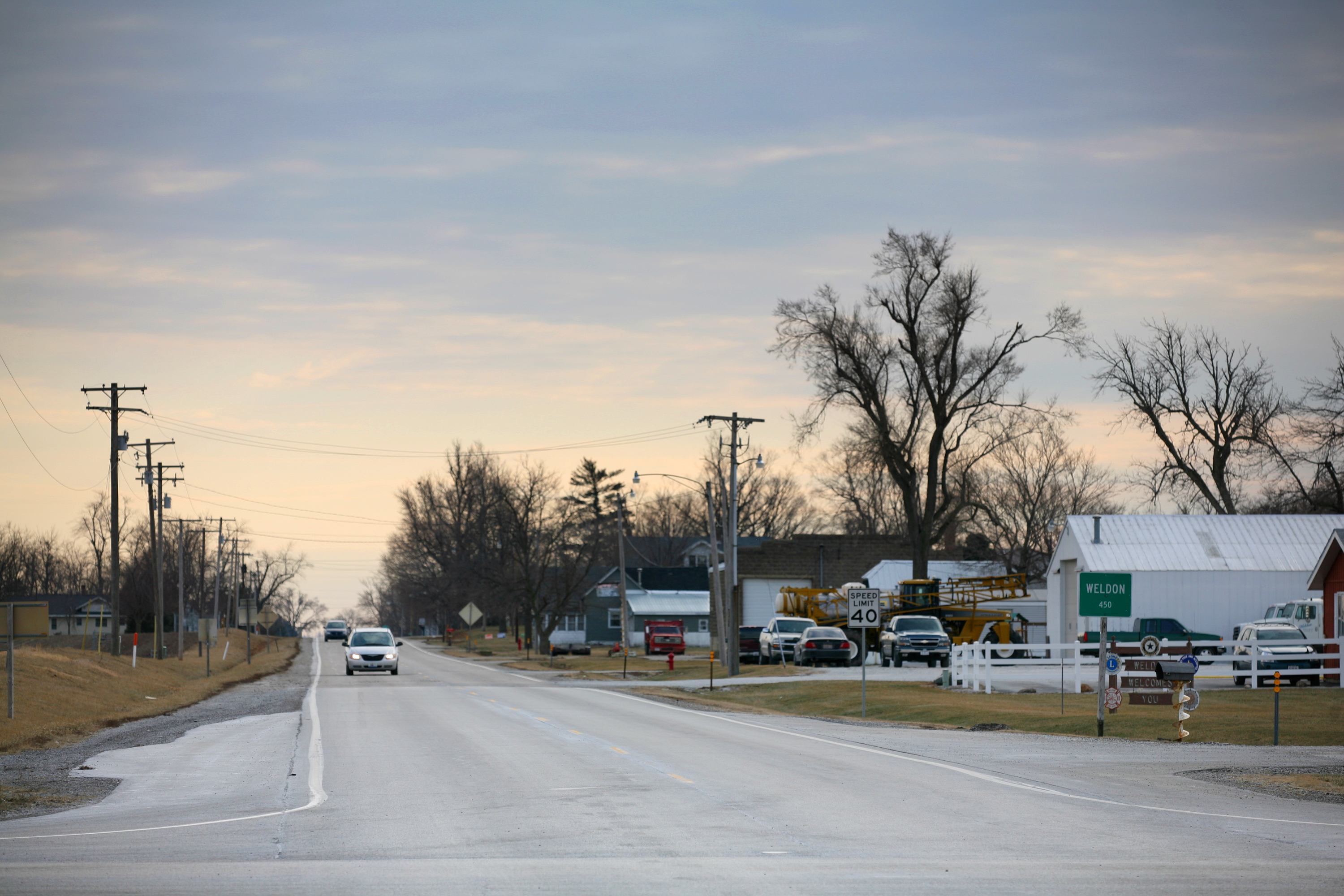 Weldon, IL at the junction of state route 10 and 48.